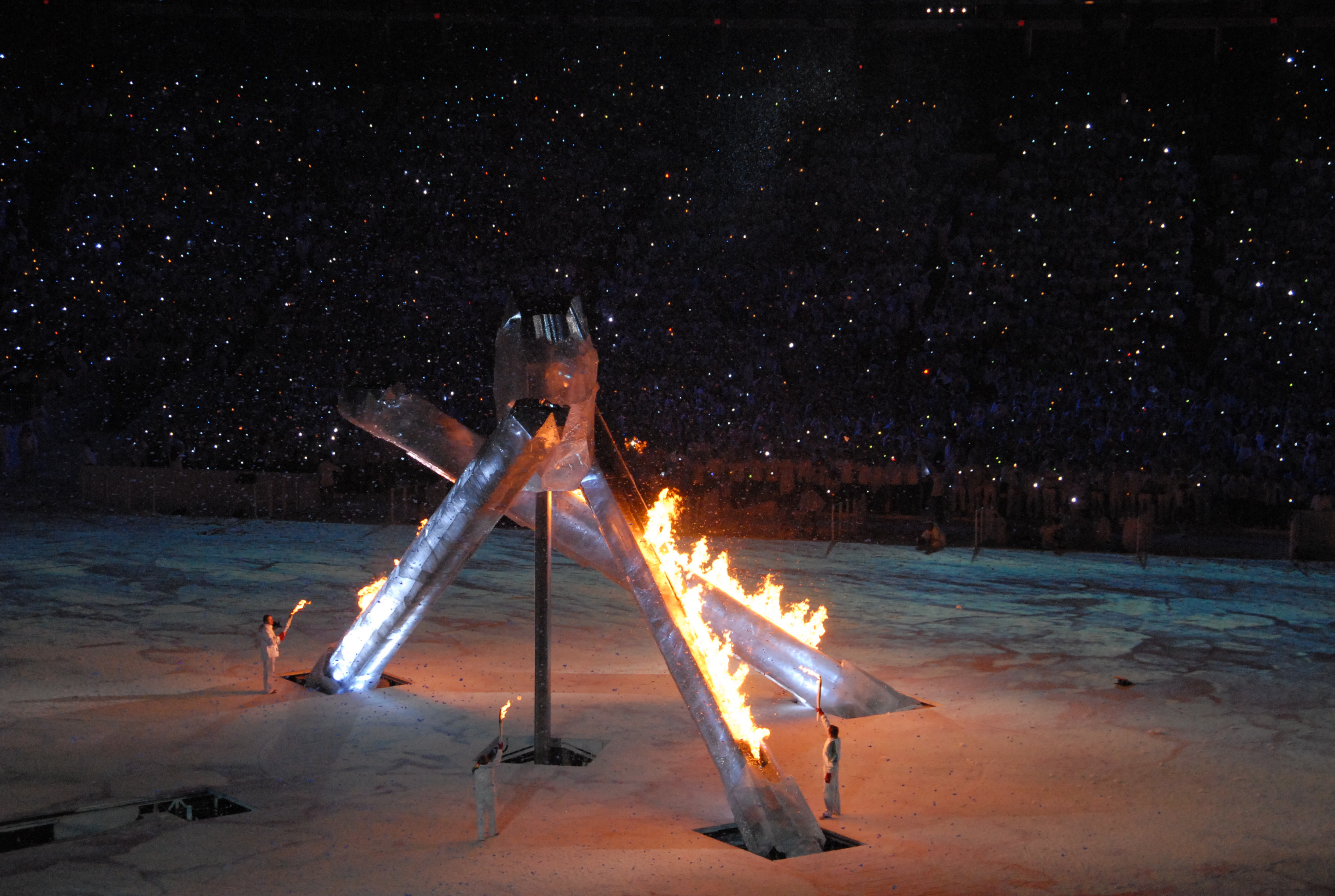 Light of the interior cauldron at the 2010 Winter Olympics